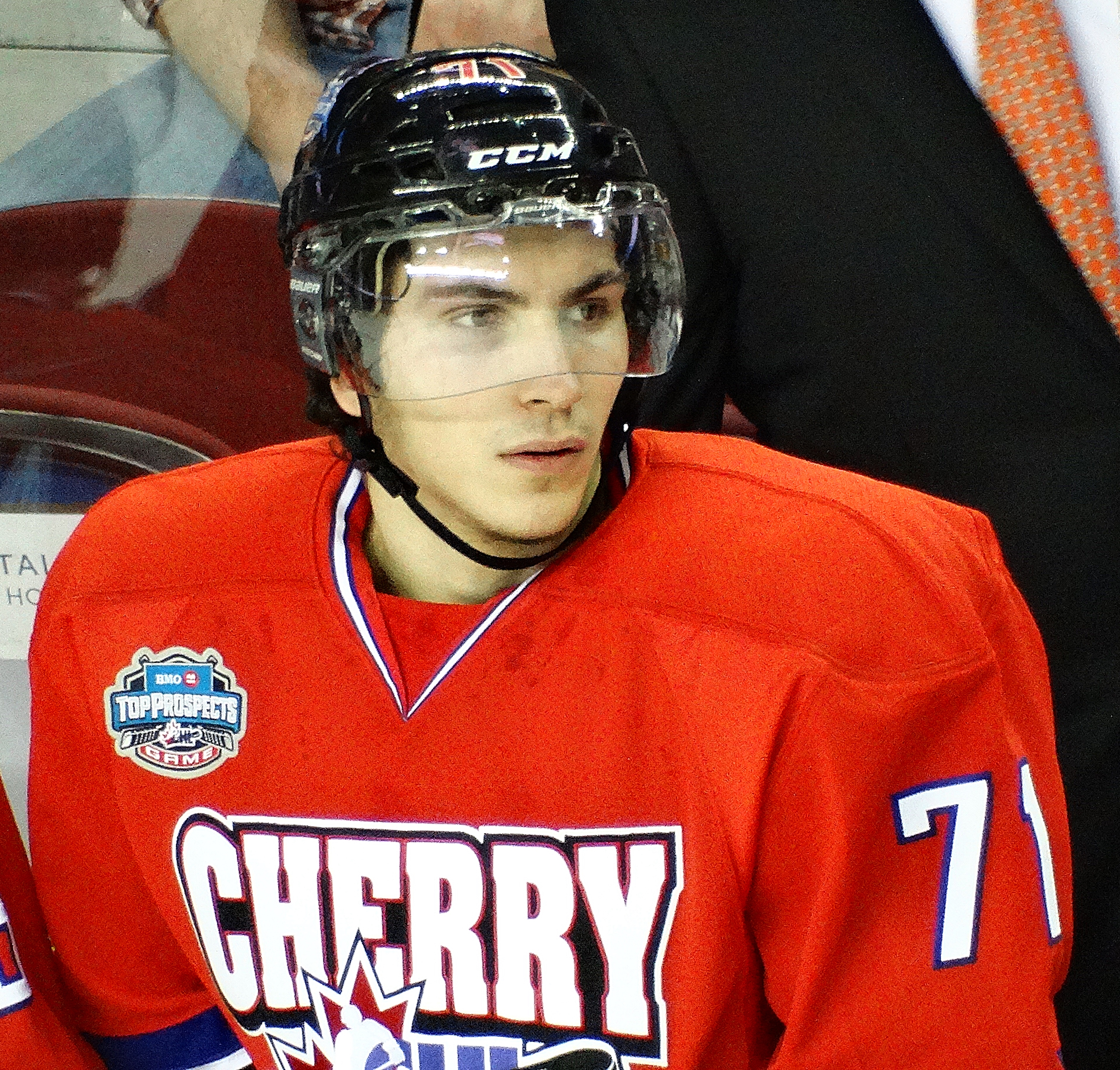 Michael Dal Colle, Canadian ice hockey left winger at the CHL / NHL Top Prospects Game